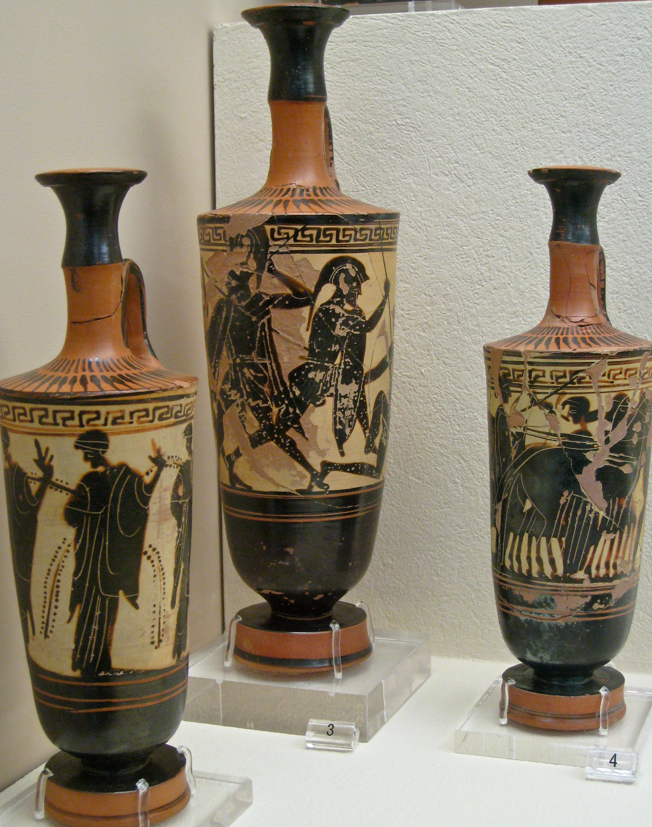 Black-figure white-ground lekythoi of Beldam workshop. Kerameikos Archaeological Museum in Athens. 470-460 BC.